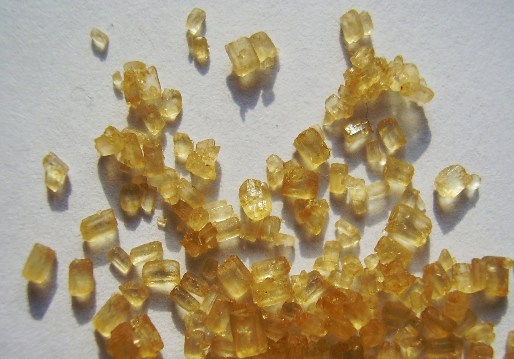 A close up photo I took of brown sugar crystals in the sun. This image may be freely used